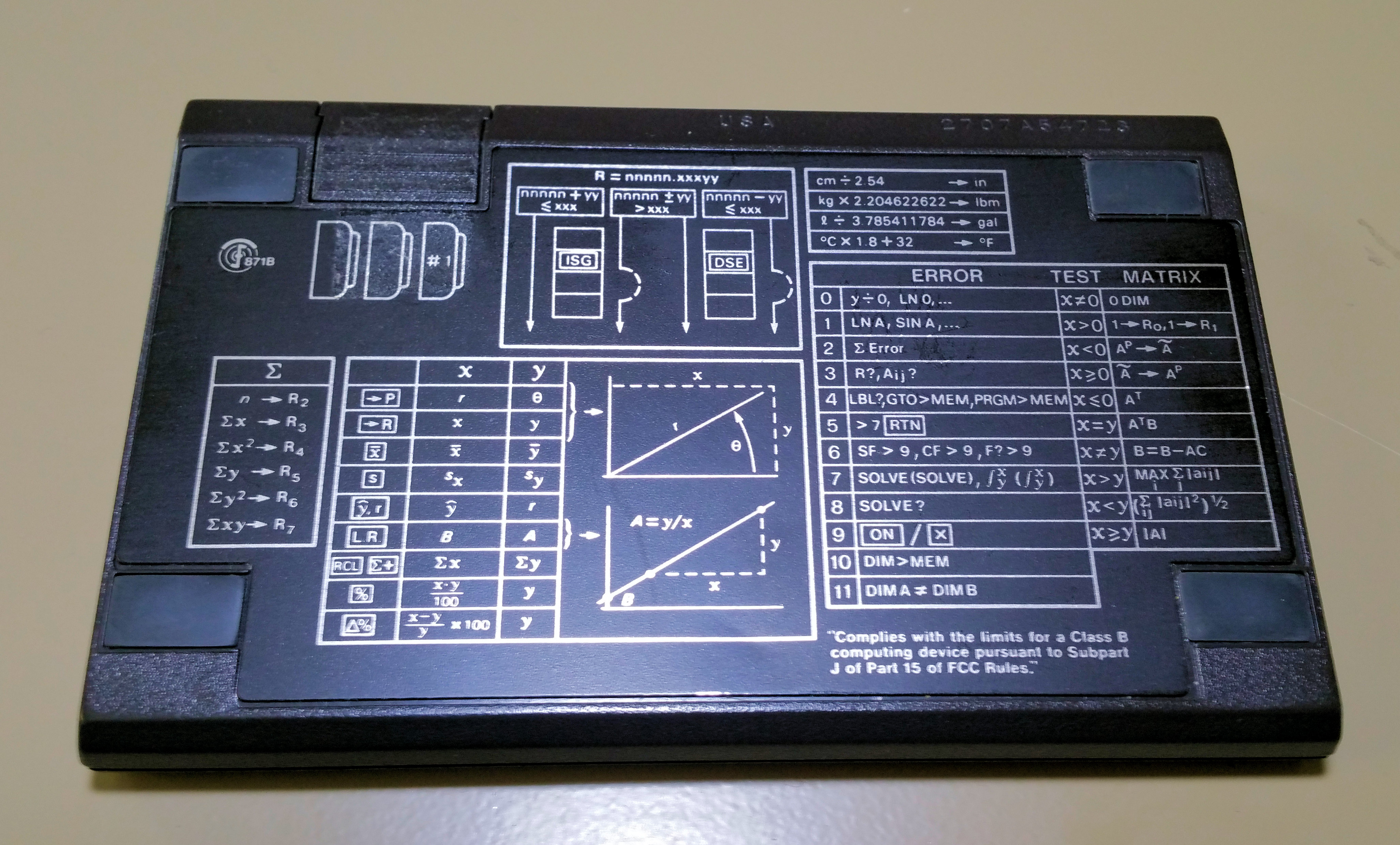 The Hewlett Packard 15C bottom